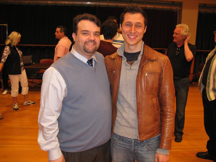 The executive producer and director of many of the American public broadcasting service of oldies format music programs TJ Lubinsky with Jordi Majó, the main vocalist of the spanish doo wop band The Earth Angels.